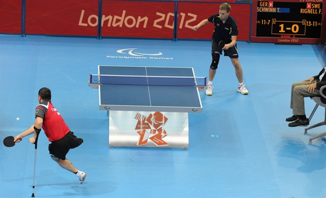 London Paralympic Games.